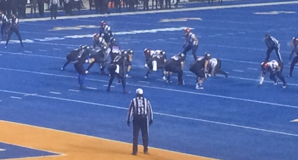 Boise State on offense during their game vs San Diego State on November 15, 2014 at Albertsons Stadium in Boise, Idaho.